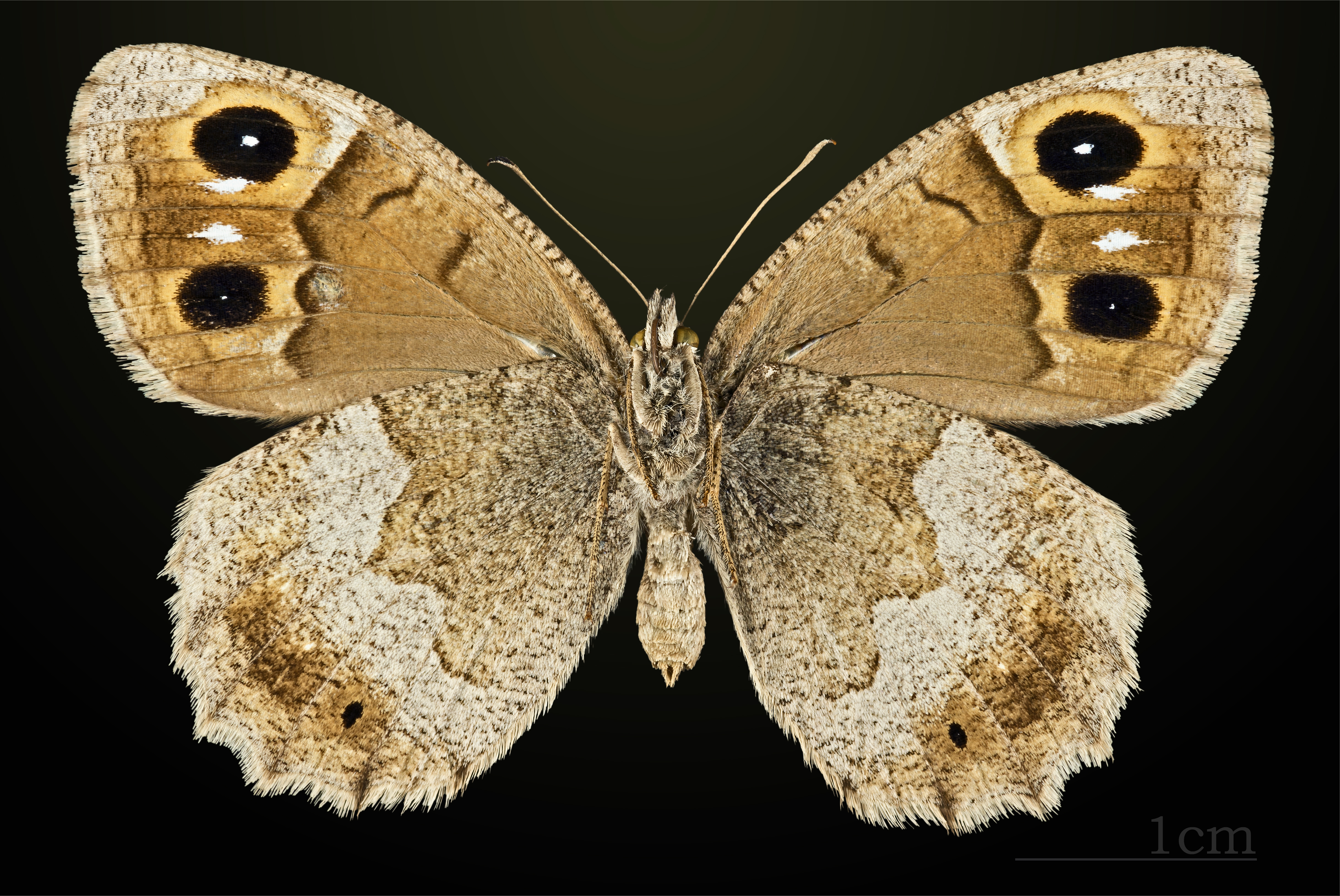 Tree Grayling ♀ - △ Ventral side Locality: Fontanes, Lot, France